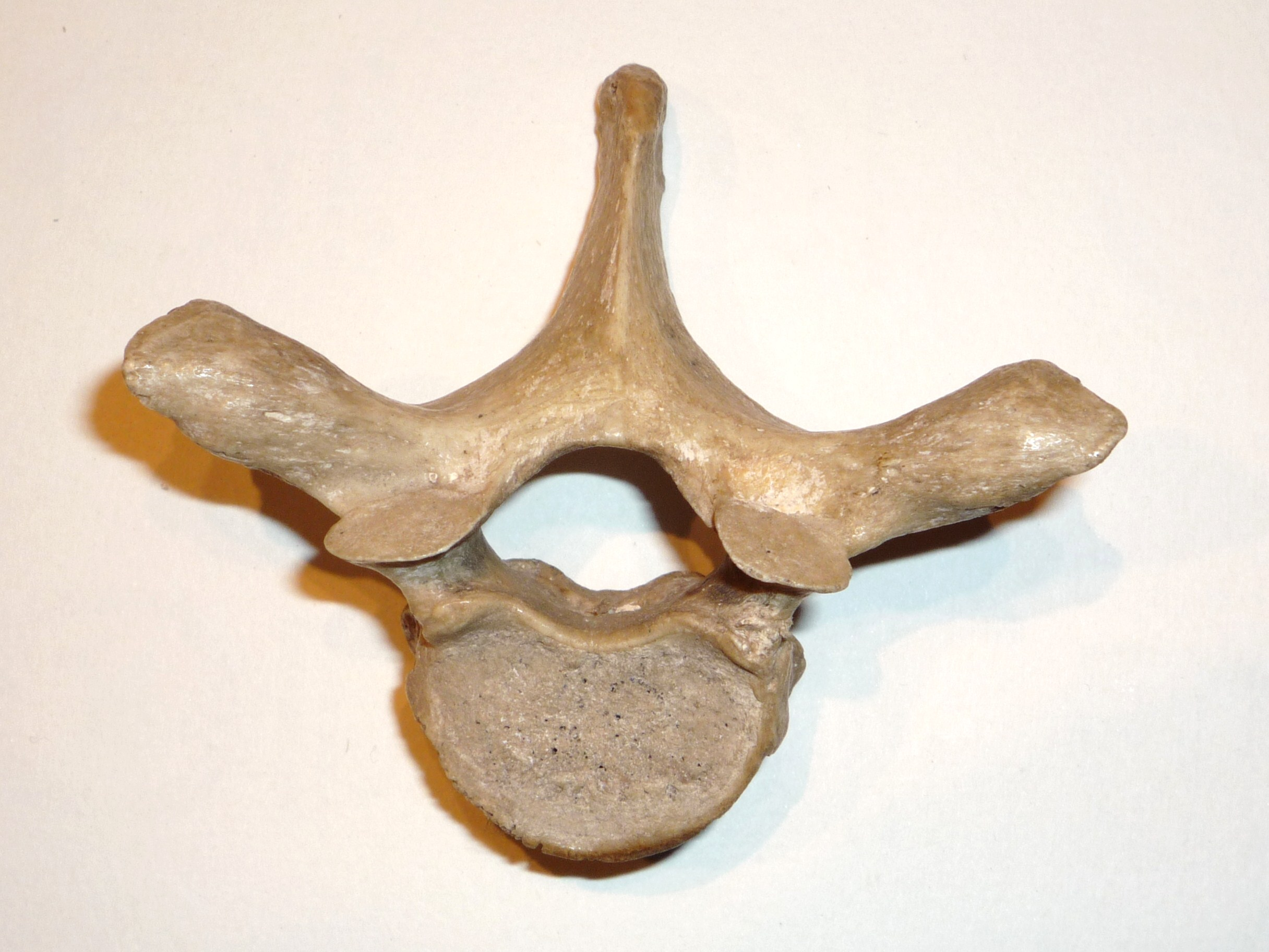 Thoracic vertebra. Superior view.